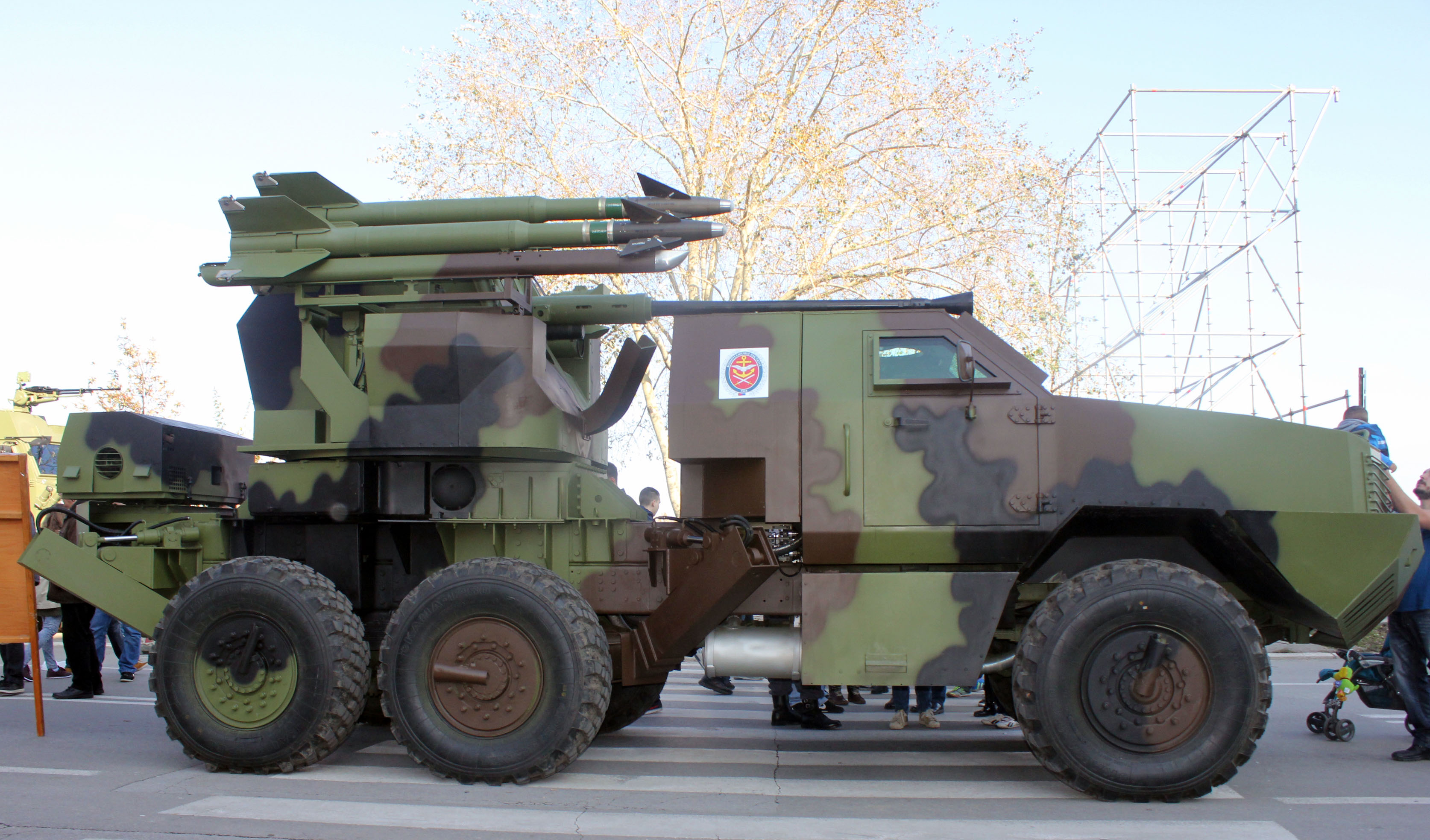 New Serbian hybrid SPAAA 40mm and SAM - PASARS 16 on display at Novi Sad after WW2 liberation parade.